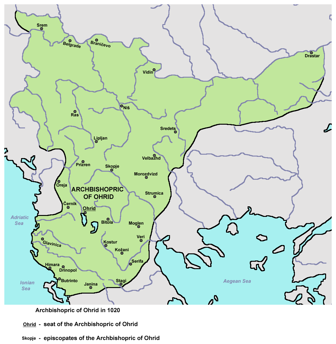 Archbishopric of Ohrid in 1020.